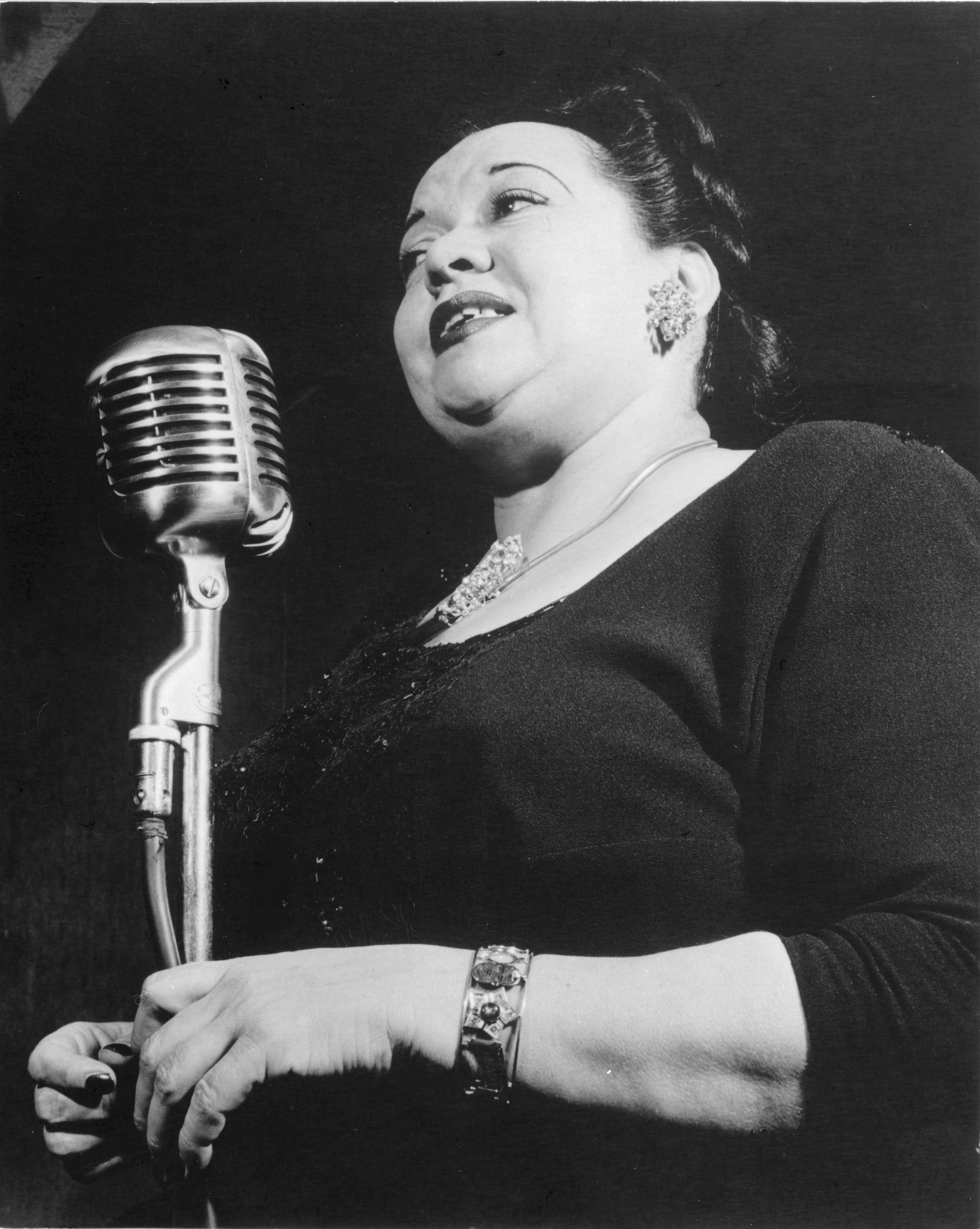 Portrait of Mildred Bailey, Carnegie Hall(?), New York, N.Y.